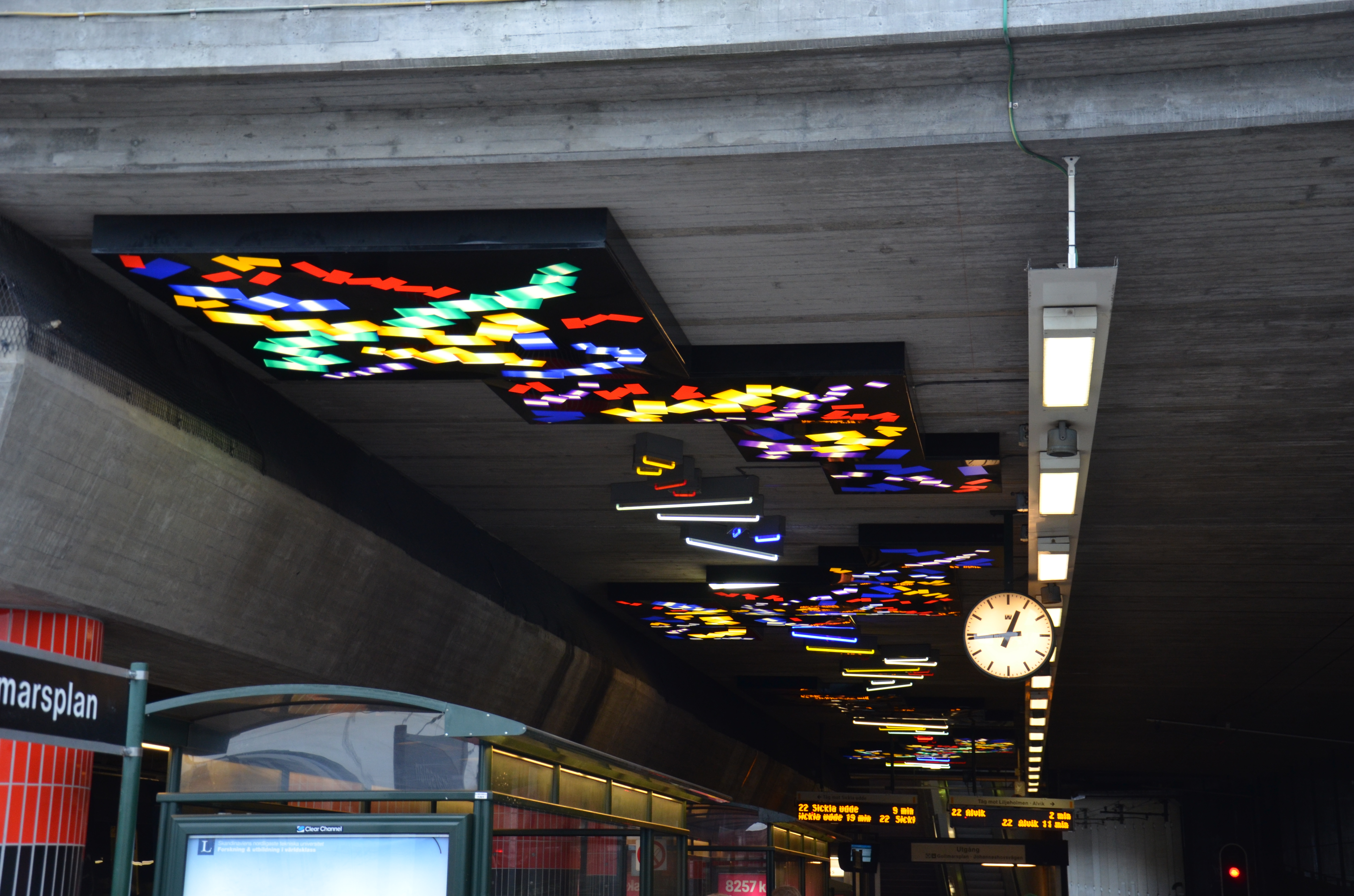 Leif Tjerneds konst på Gullmarsplan, neon i perrongtaket på Tvärbanans perrong